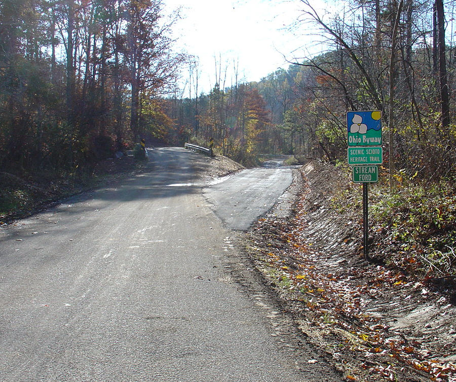 Picture of a stream ford in Shawnee State Forest in Scioto County, Ohio